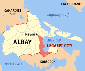 Locator map of Legazpi in Albay, Philippines.